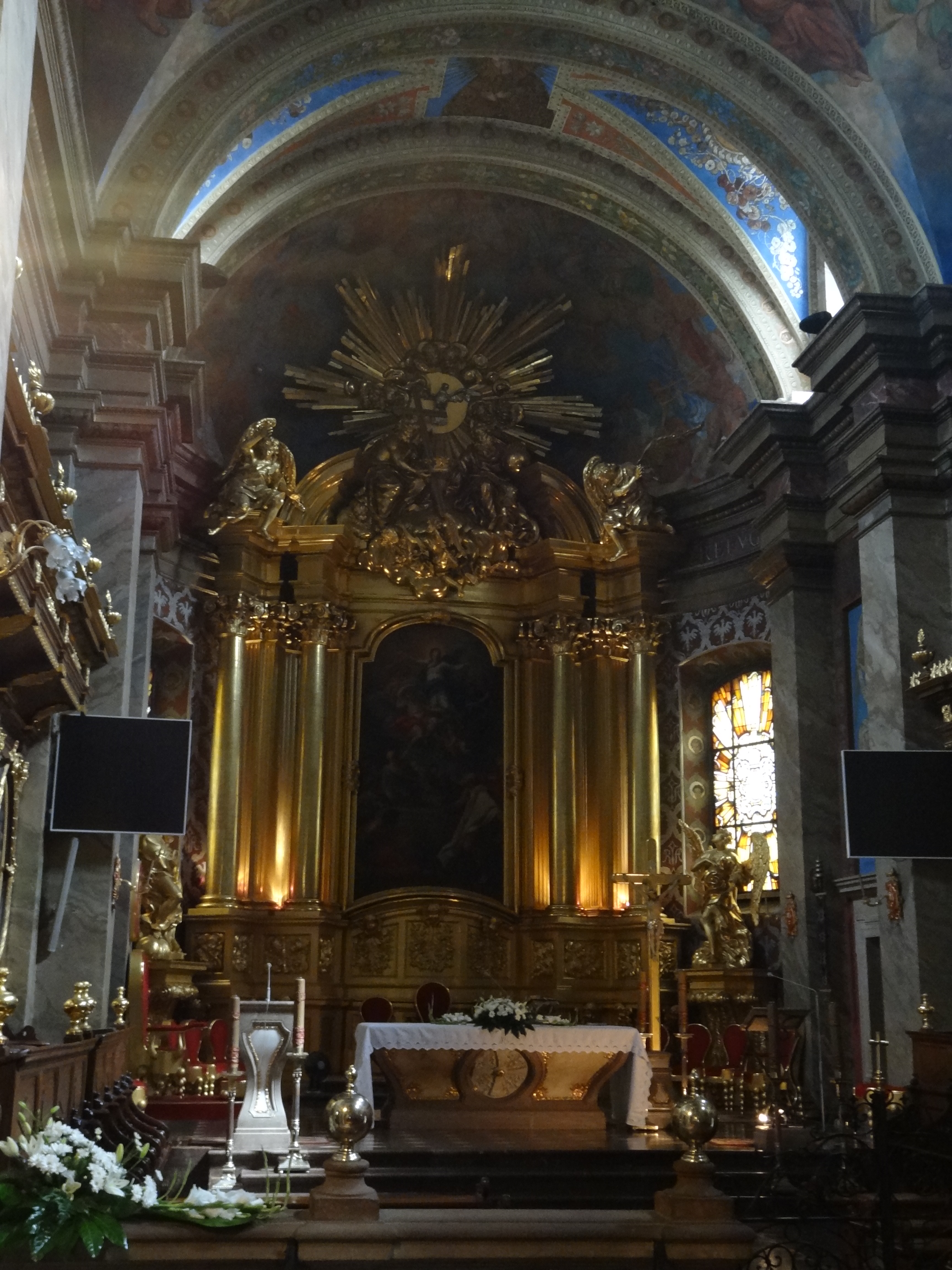 Kielce Cathedral 01206